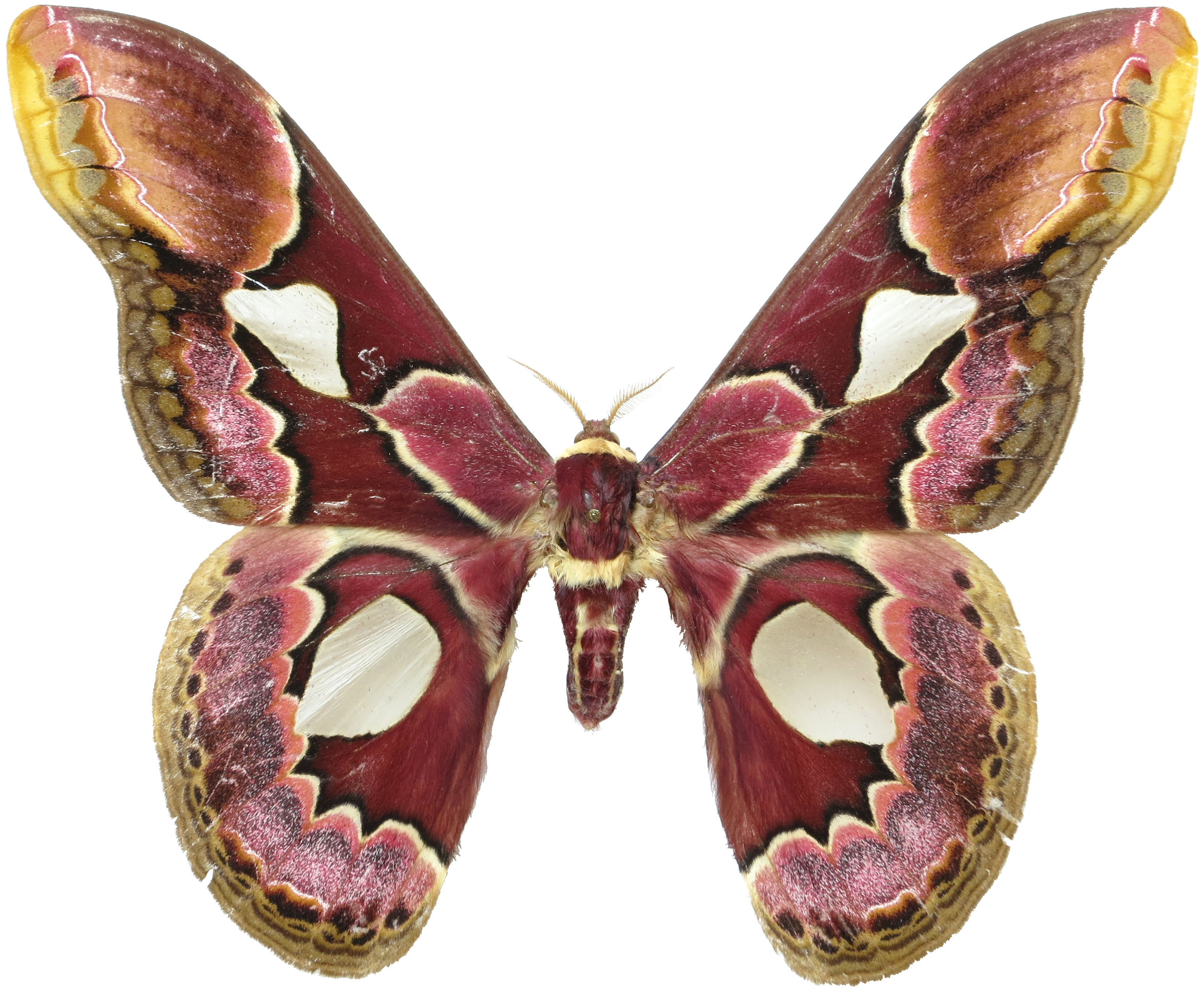 Rothschildia erycina from Rio Itaya, Loreto, Peru